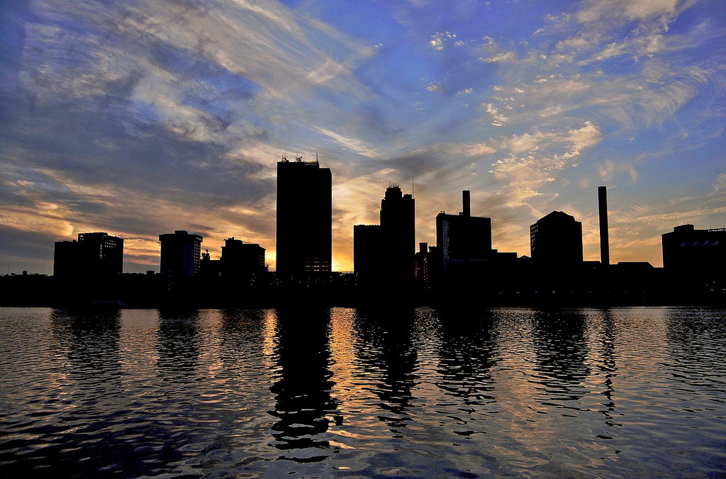 shot raw... some improvement in Aperture 1.5